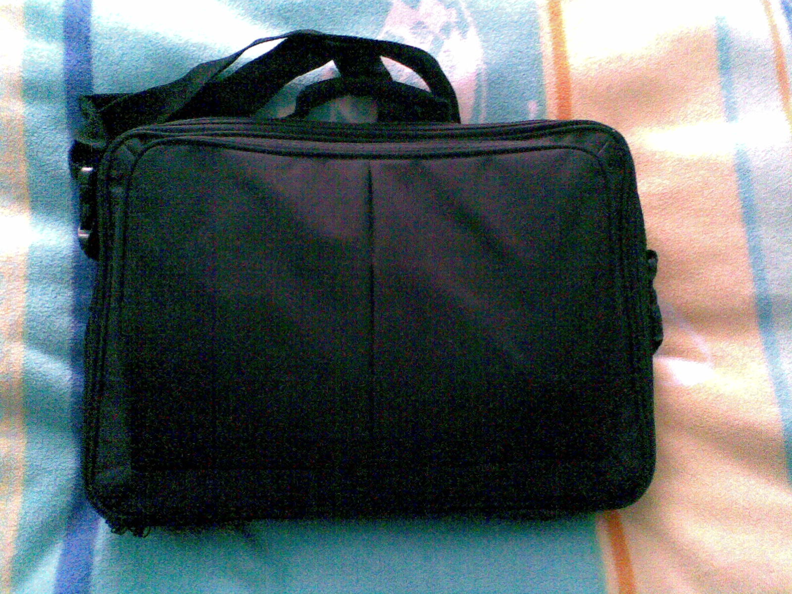 Laptop bag for 15.4 inches